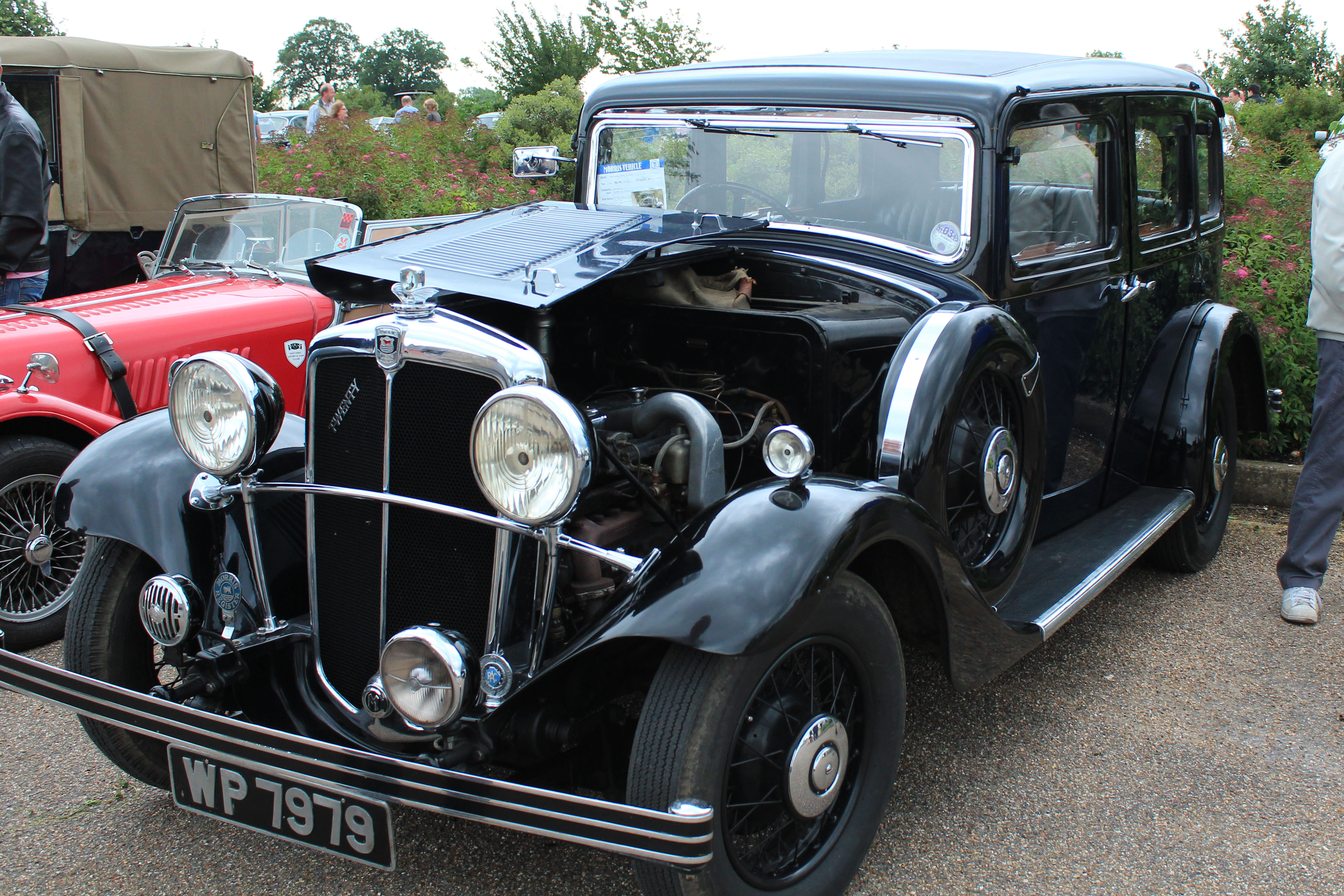 1935 Morris Oxford Twenty Six (DVLA) first registered 1 February 1935, 2687cc(?) Polhill Classic Car Show